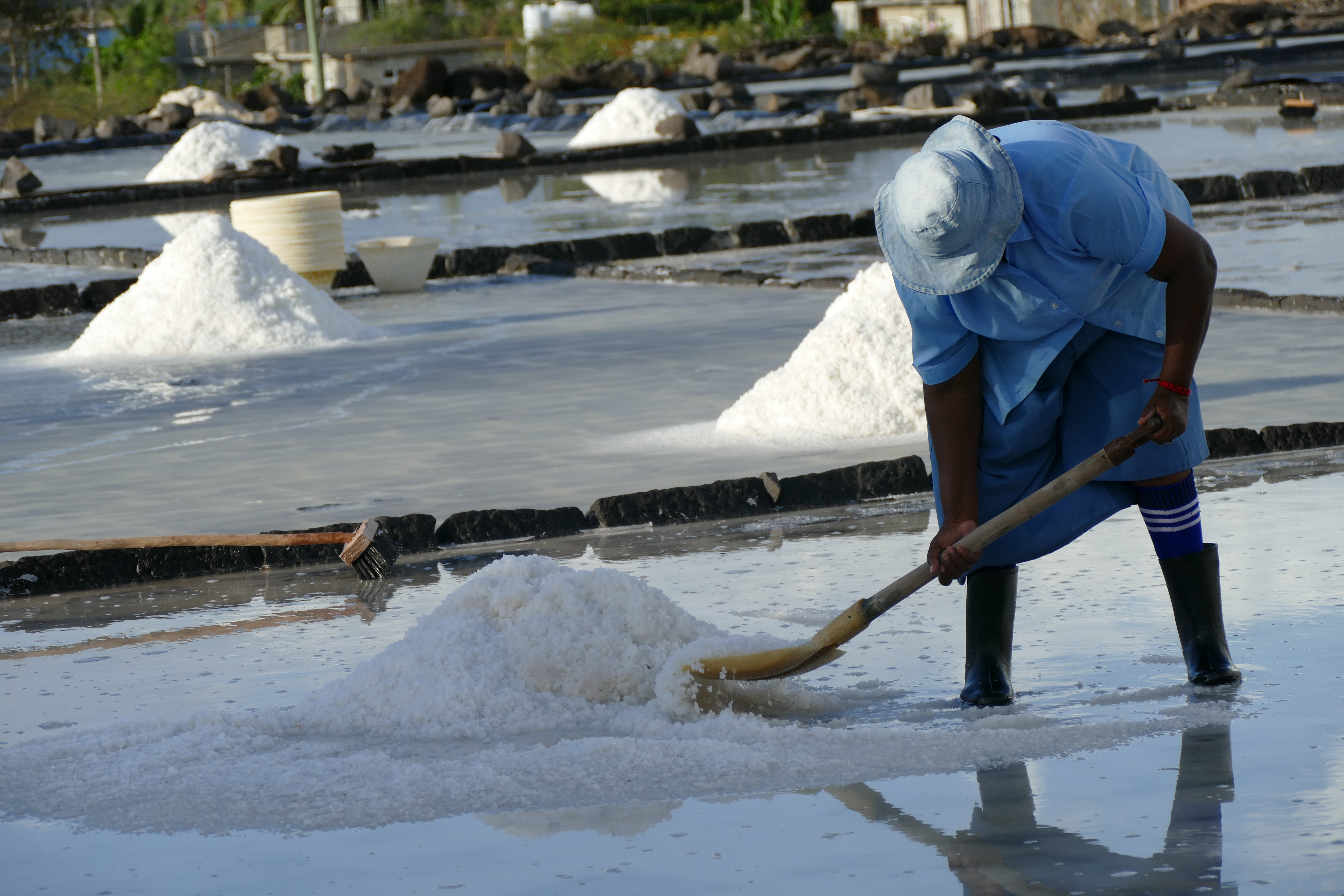 This is an image of "African people at work" from Mauritius